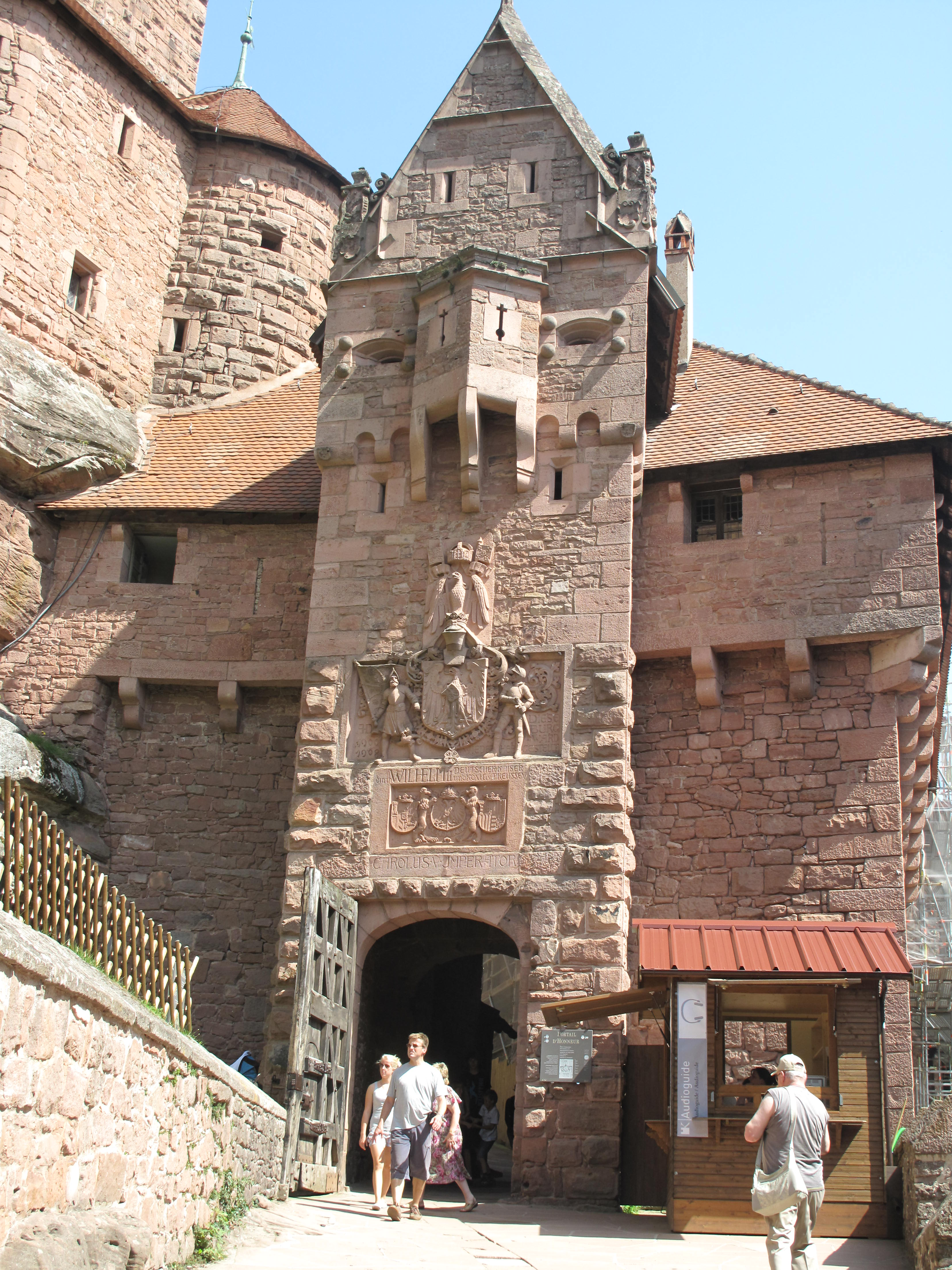 Main entrance of the castle of Haut-Koenigsbourg (Bas-Rhin, France).